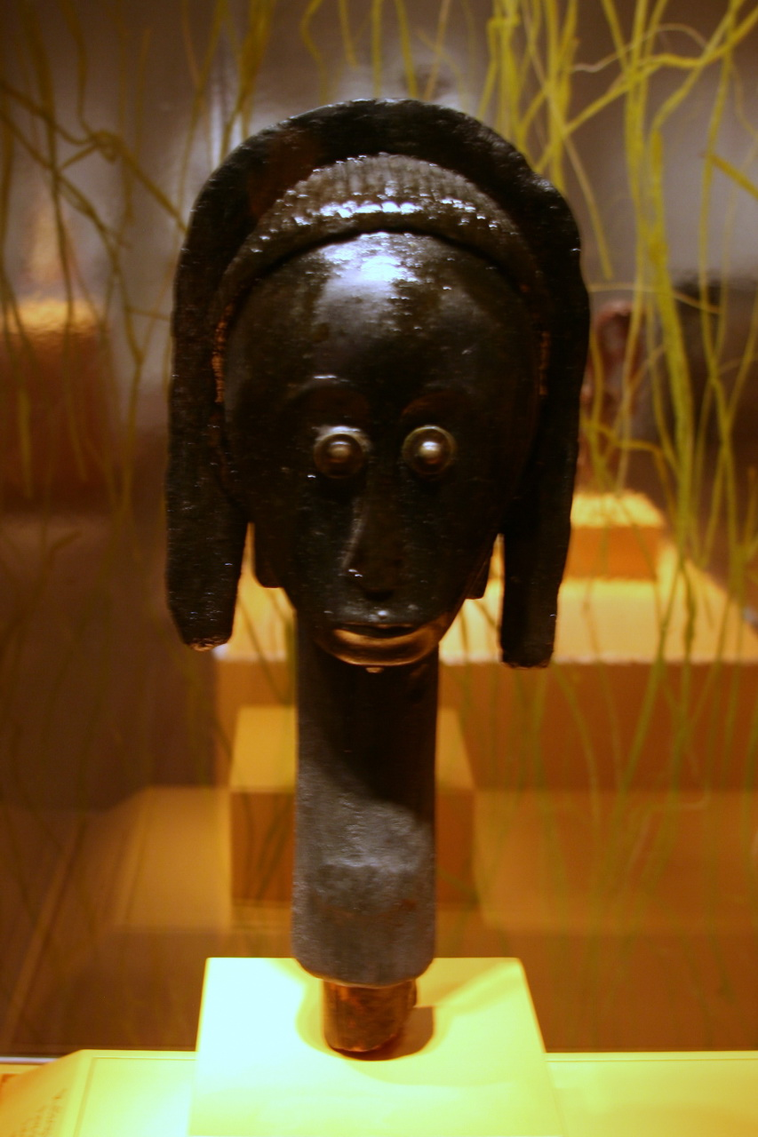 The Fang byeri cult existed to honor a family's ancestors and ask for their help. This was done by remembering names and deeds and by keeping physical relics in a barkwood box guarded by an attached, carved wooden head or figure. This head was not an individual portrait but an idealized representation with a prominent forehead, open relentless gaze, small mouth and older style hairdo or wig. The characteristic shine results from frequent rubbing with tree oil.